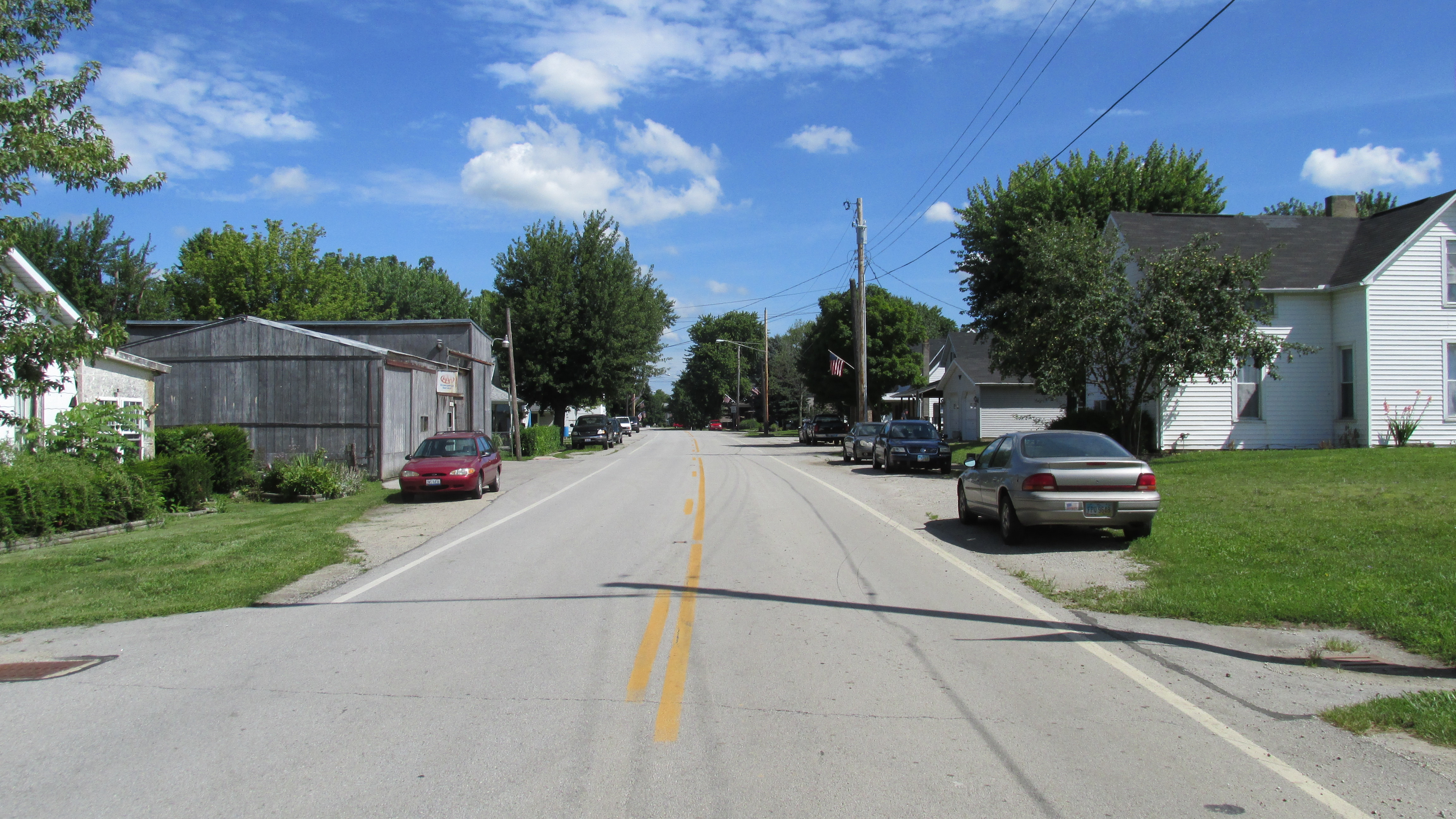 Looking north on Main Street (Ohio Highway 729) in Milledgeville.